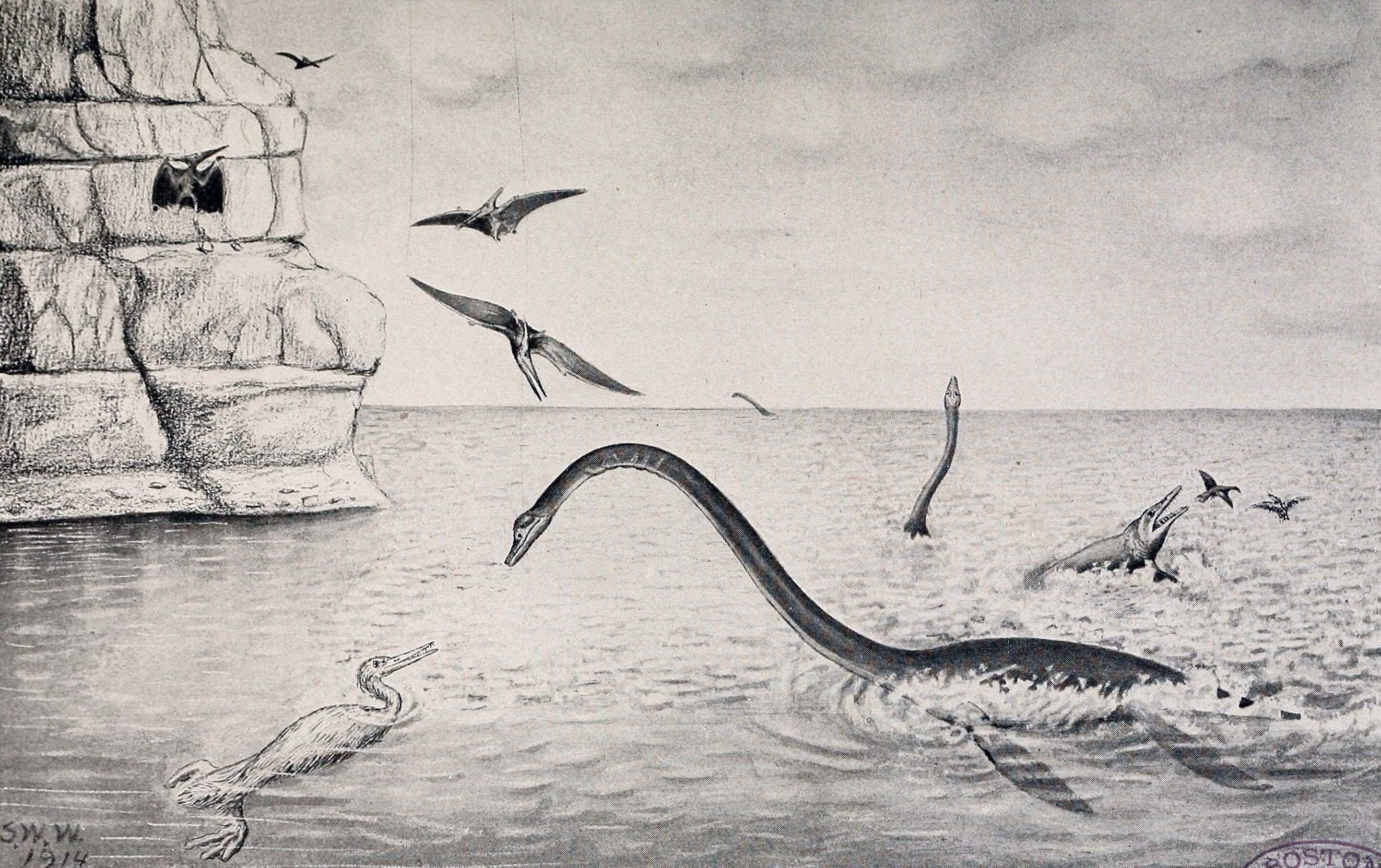 Identifier: waterreptilesofp1914will Title: Water reptiles of the past and present Year: 1914 (1910s) Authors: Williston, Samuel Wendell, 1851-1918 Subjects: Aquatic reptiles Publisher: Chicago, Ill., The University of Chicago Press Text Appearing Before Image: FiG. 32.—Skeleton of Trinacromerum osbomi, a Cretaceous plesiosaur, as mountedin the University of Kansas Museum. chenius Lucasi, the head was two and one-half feet in length, theneck less than two feet, and the body about five; the length of thetail is unknown. Not only was the number of vertebrae so extraordinarilyincreased in many plesiosaurs, but in the longest necks the verte-brae themselves, as in birds, were more or less elongated, especiallythe posterior ones, which may be six or seven times the length ofthe anterior ones. Not only was the neck of such great lengthin many plesiosaurs, but it also tapered very much toward thehead. The vertebrae are always biconcave, but the cavities are shallow,saucer-like, sometimes almost flat at each end, and very differentfrom the conical fish-like cavities of ichthyosaurian vertebrae. SA UROPTERYGIA Text Appearing After Image: 8o WATER REPTILES OF THE PAST AND PRESENT Often the vertebrae are short throughout the vertebral column;sometimes the posterior cervicals and the dorsals are elongatedand very robust. The trunk or body proper was never muchelongated in the plesiosaurs, having only from twenty-five to thirtyvertebrae. The tail was always shorter than the trunk, and ittapered rapidly to the extremity; in some specimens it has beenobserved to turn up slightly near the extremity, as though for thesupport of a small terminal fin. The ribs in the cervical region are short, but so locked togetherposteriorly as not to permit much lateral motion. They are